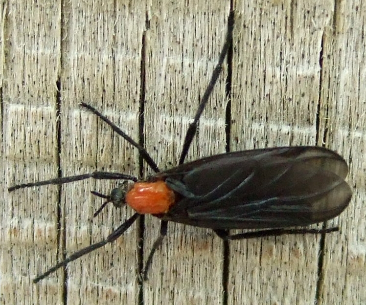 The love bug (also known as lovebug, march fly, honeymoon fly, telephone bug, kissybug and double-headed bug) (scientific name Plecia nearctica) is a small flying insect common to the southern United States, especially along the Gulf Coast. It is most often known as a serious nuisance to motorists. Usually they come in pairs, but only one shown in this picture.